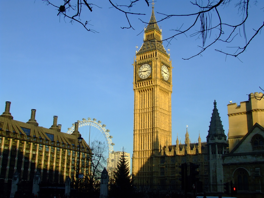 A standard view of central London, showing from left to right: Portcullis House, the London Eye, Big Ben, and part of the Houses of Parliament.